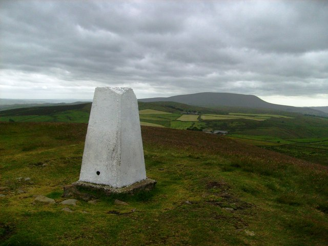 Weets Hill Trig freshly painted Pendle Hill behind